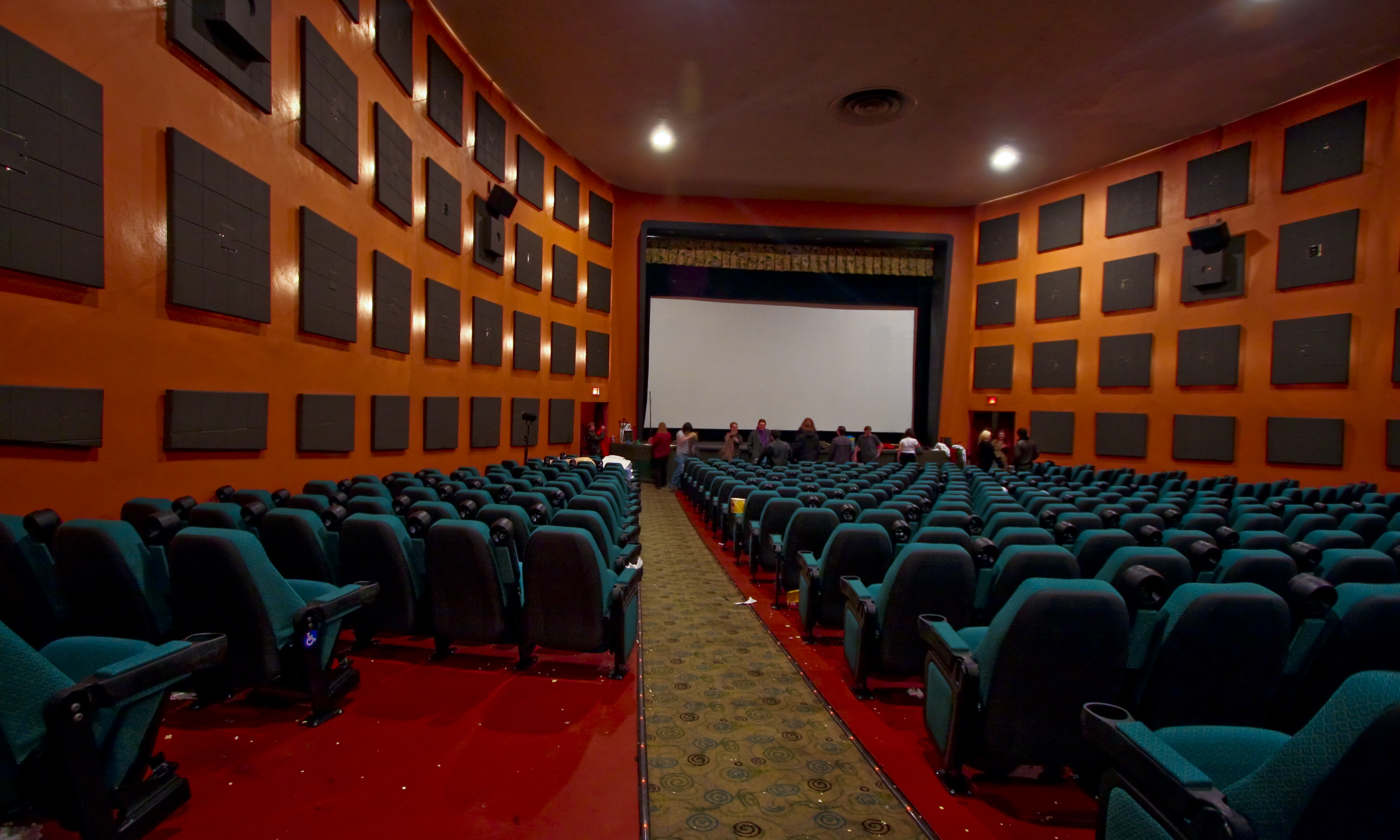 Just after the Rocky Horror Picture Show ended on 01/06/2008.